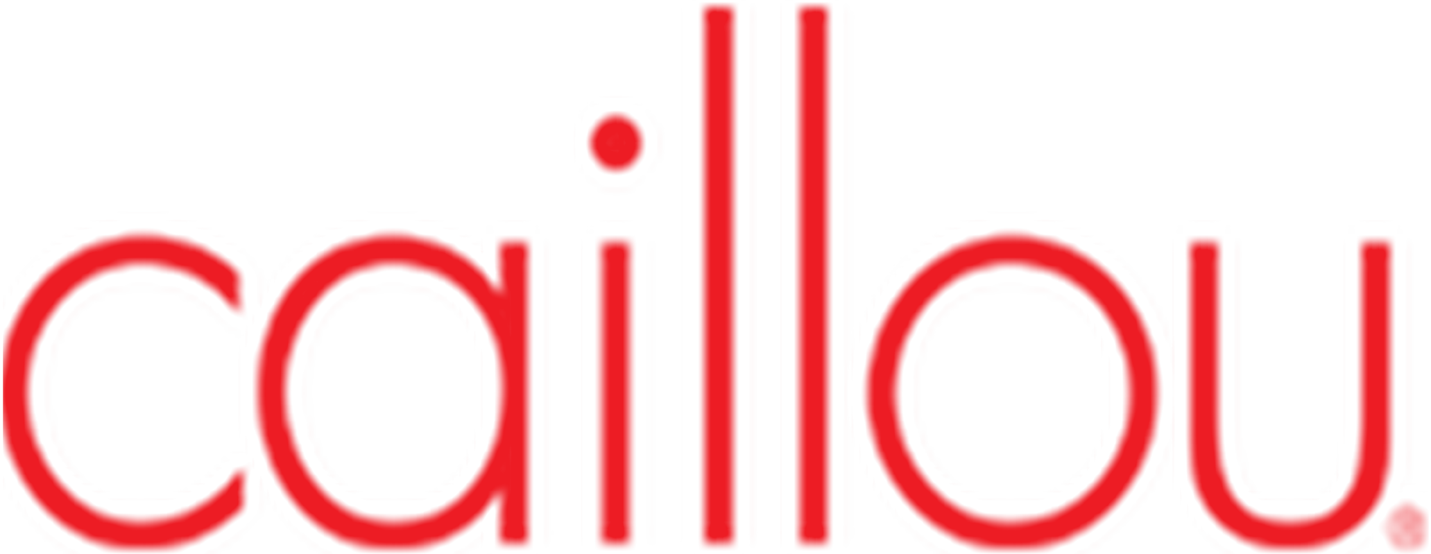 The logo for the TV Series Caillou.